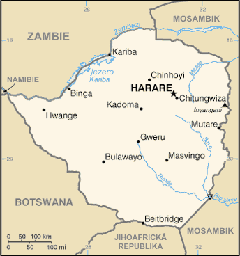 Map of Zimbabwe with Czech description.